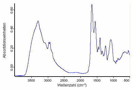 Spectrum measured with a FTIR spectrometer